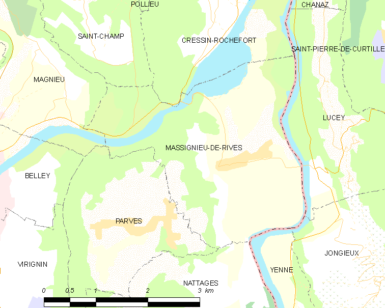 Map of French commune: Massignieu-de-Rives Map commune FR insee code 01239.png